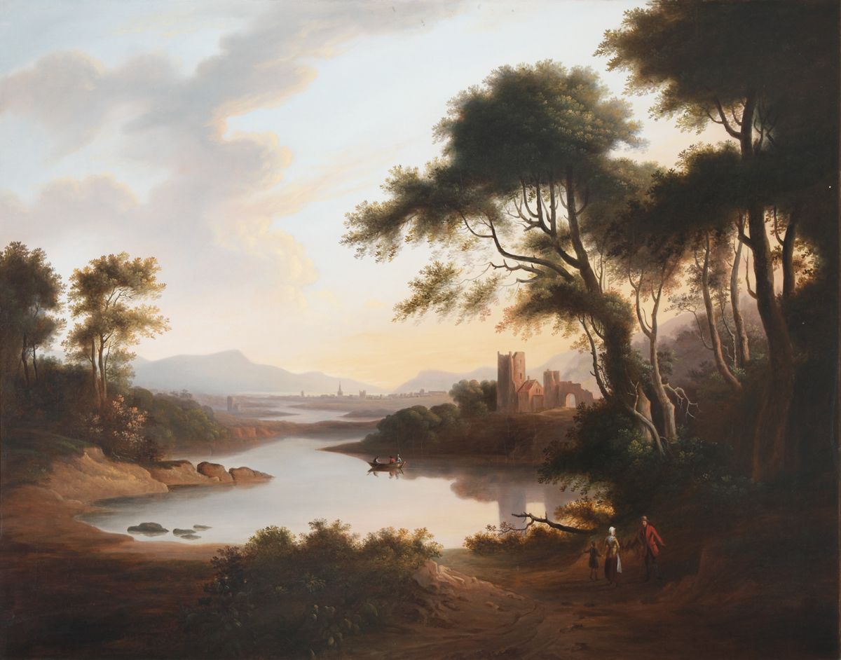 Anne Gibson Nasmyth; River Landscape with Figures by the Banks, a Castle and a Town beyond; National Trust, Hartwell House; - guess 1820